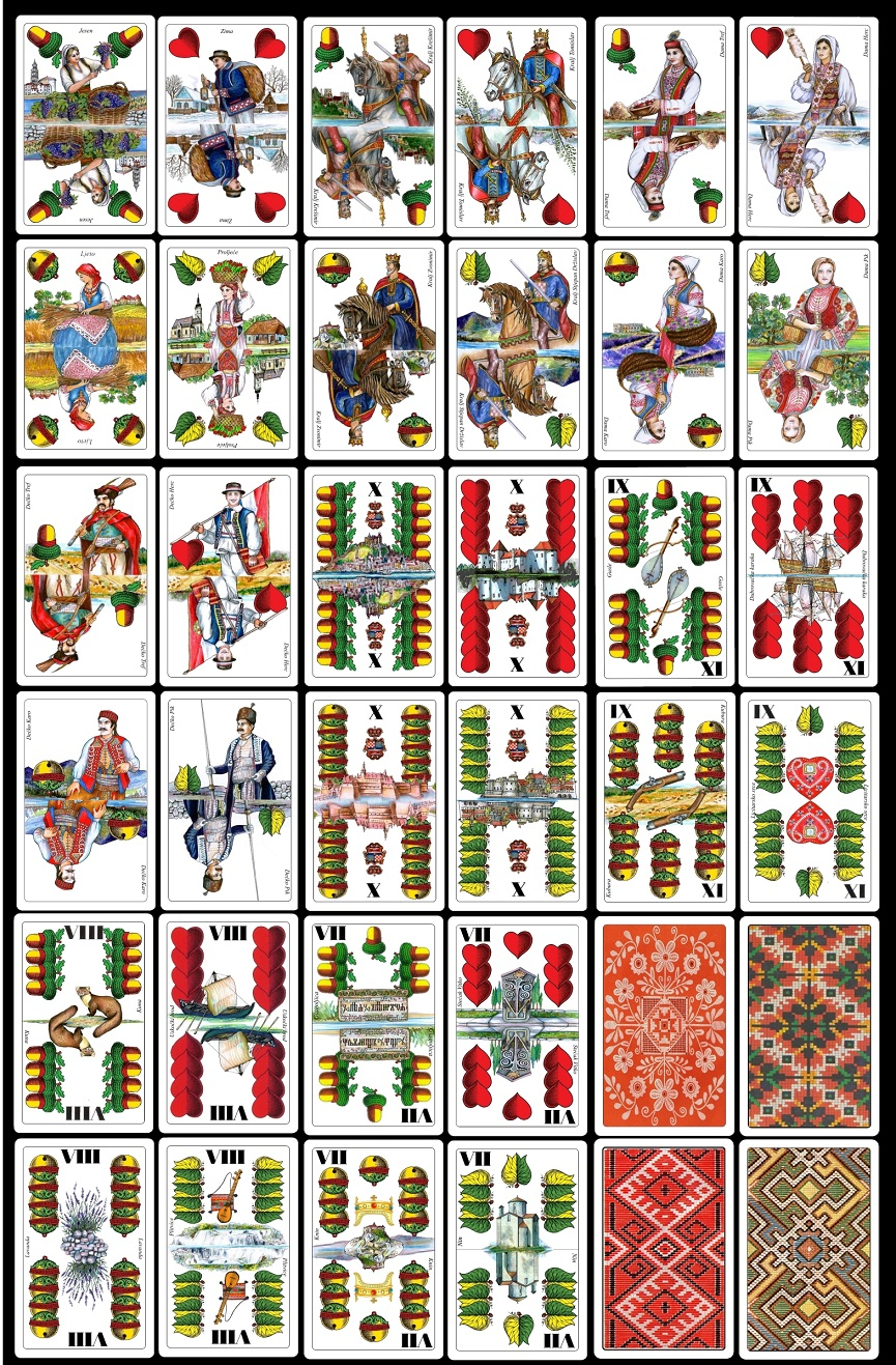 Croatian cards for Belot